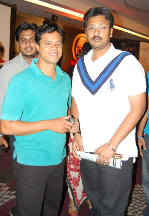 Shaik Mydeen and Dayanidhi Azhagiri